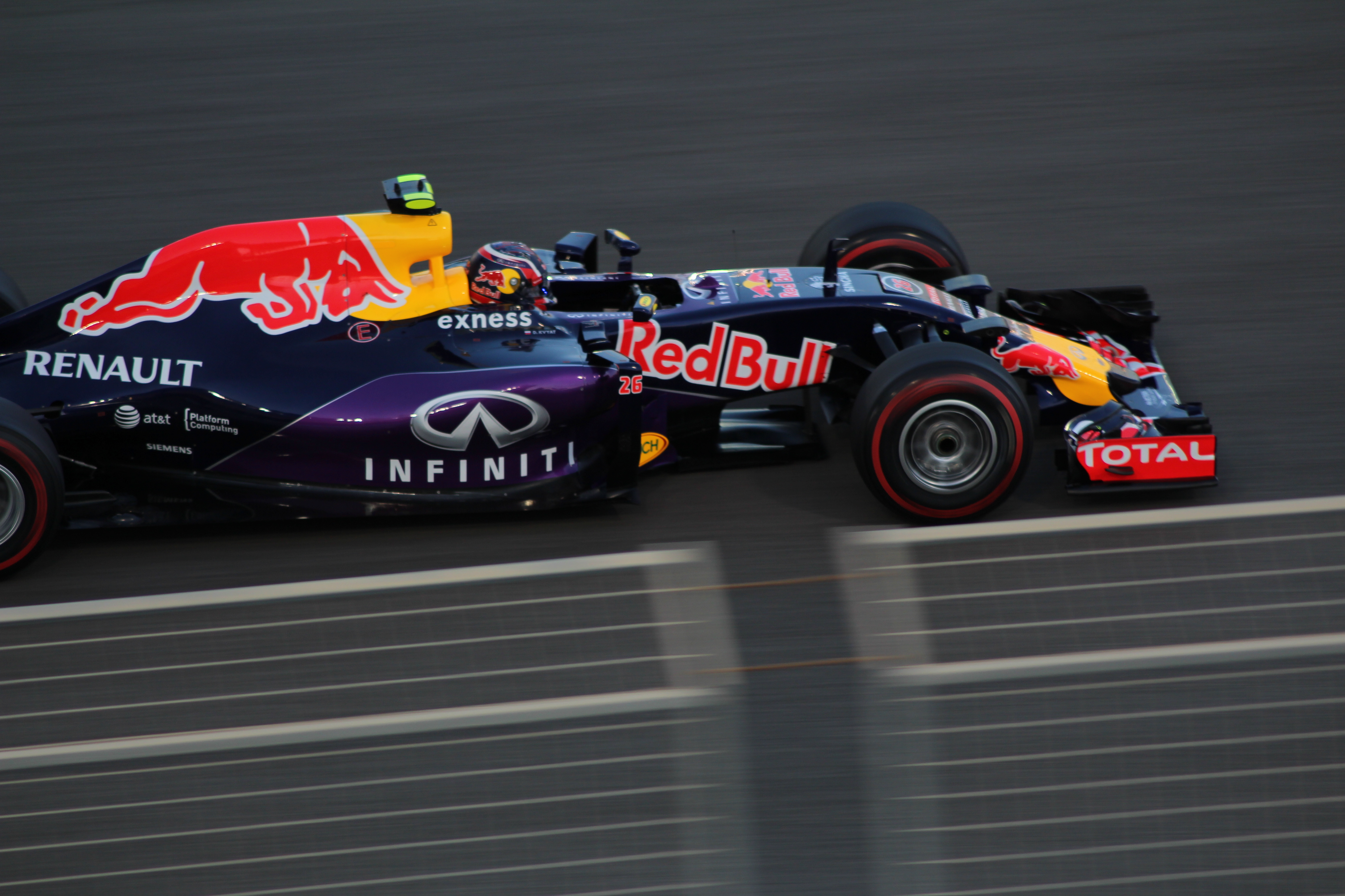 Daniil Kvyat at the 2015 Abu Dhabi Grand Prix